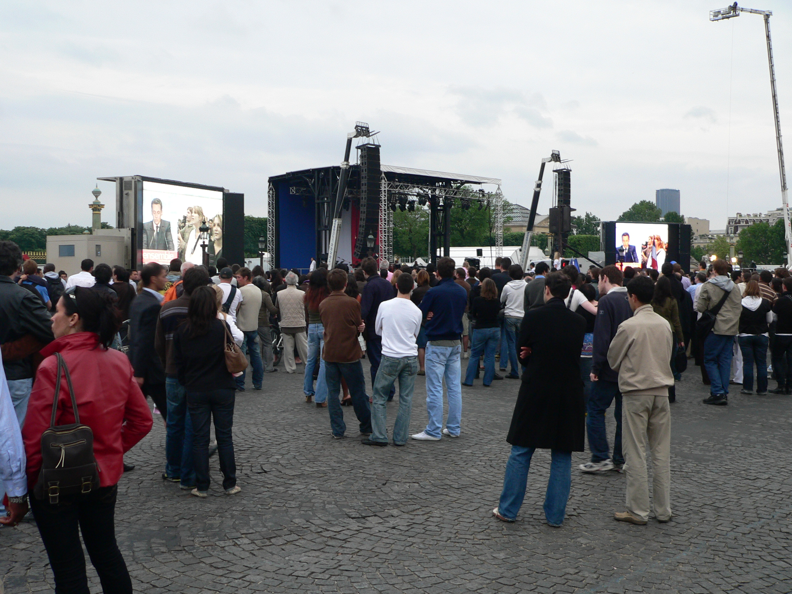 The rally of partisans of Nicolas Sarkozy at the place de la Concorde in Paris following Sarkozy's election